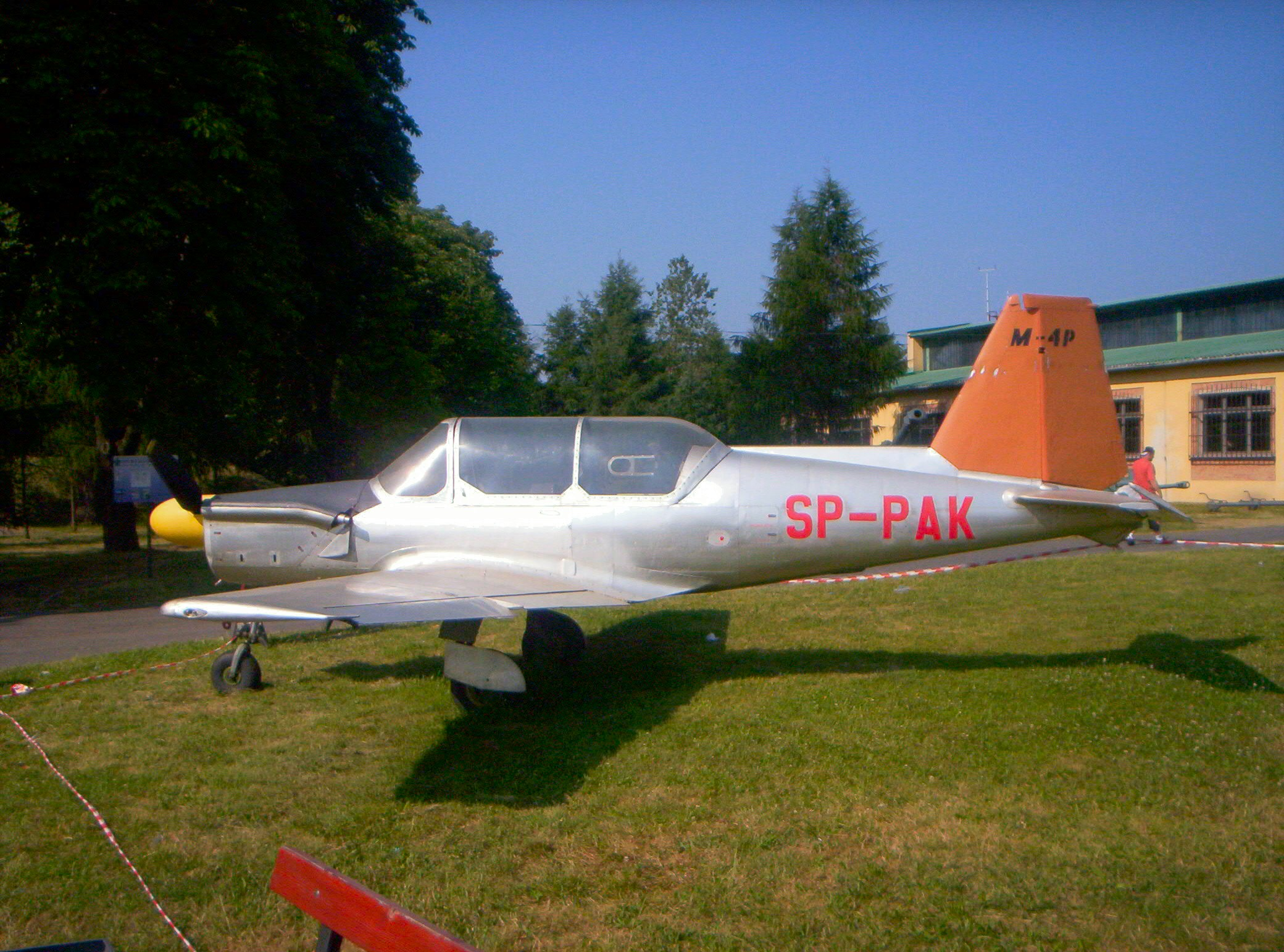 PZL-Mielec M-4 Tarpan - Polish trainer aircraft prototype, Polish Aviation Museum in Kraków